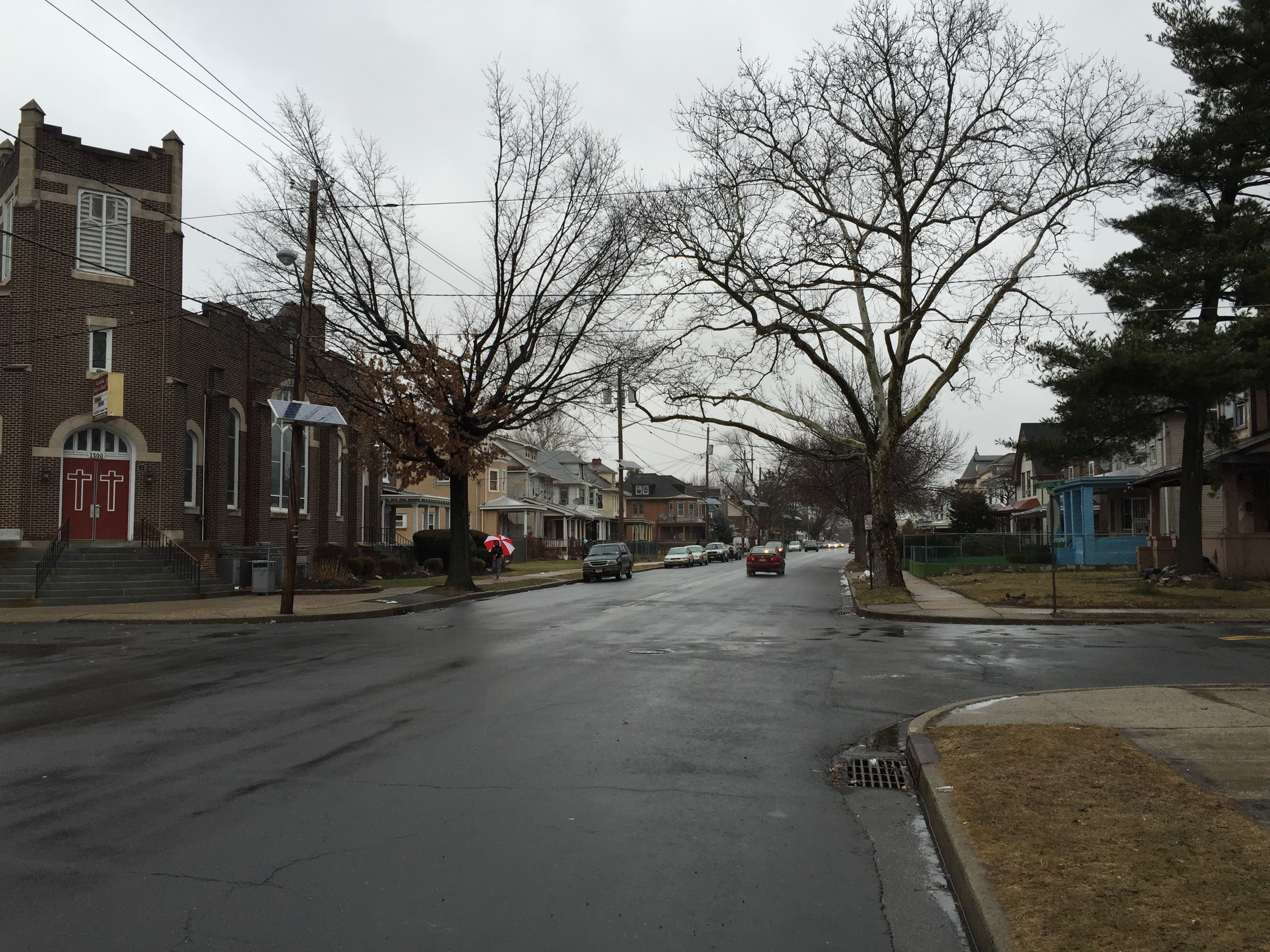 View east along Greenwood Avenue (New Jersey Route 33) near Garfield Avenue in the Wilbur section of Trenton, New Jersey